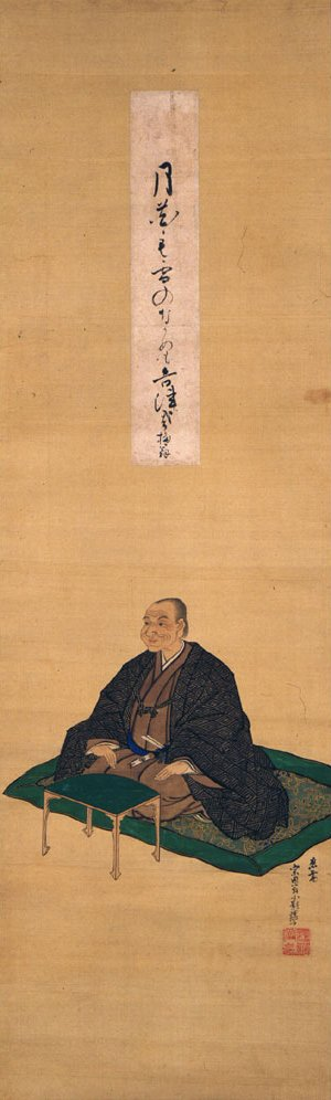 Portrait of Nishiyama Soin, Nishiyama Sōin (1605 — 1682). (西山 宗因) Japanese poet and Zen-Buddhist Monk of 17th century